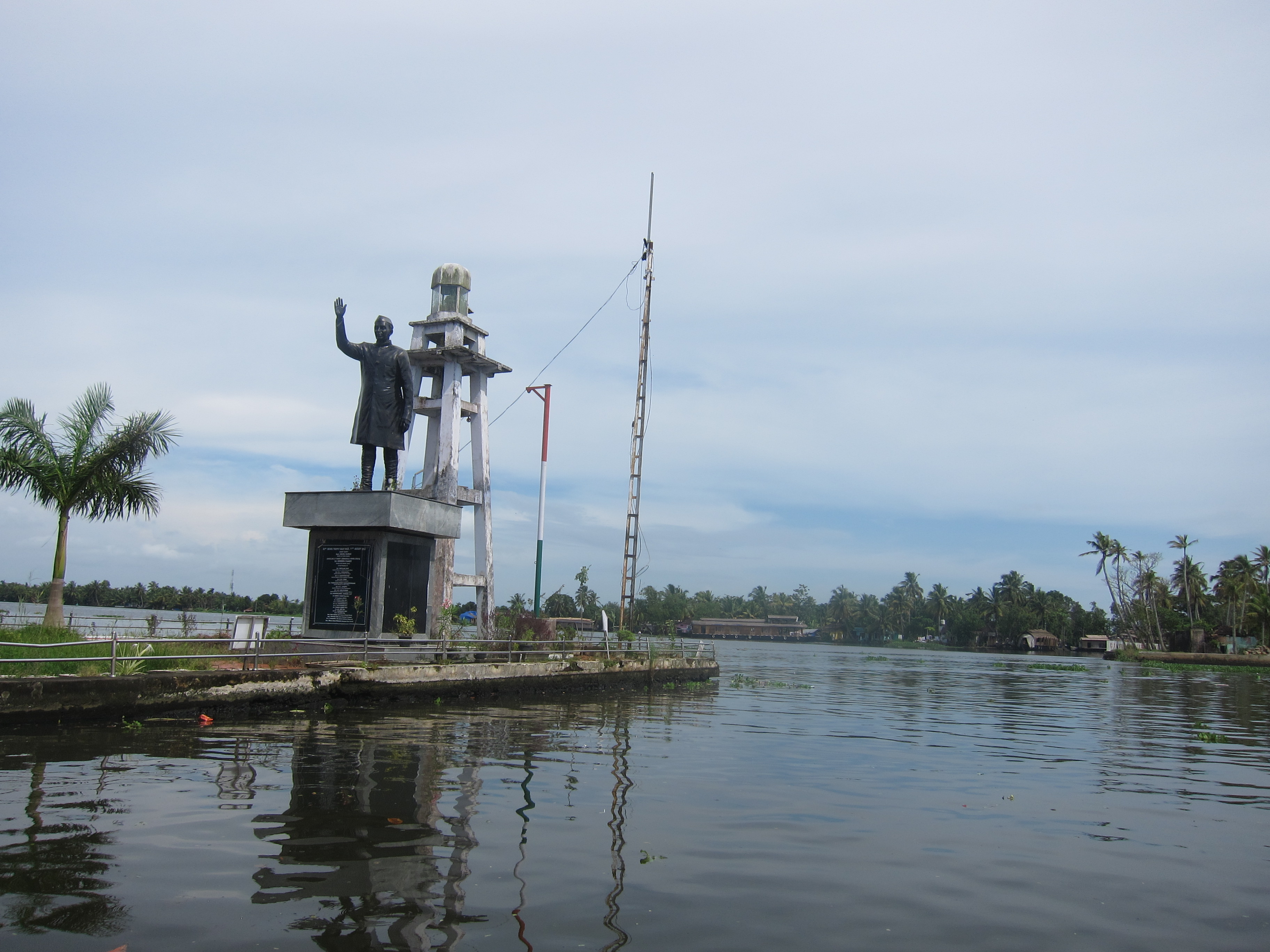 Alapuzha Nehru Trophy Boat Race Vembanad Lake